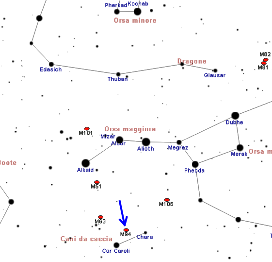 M94